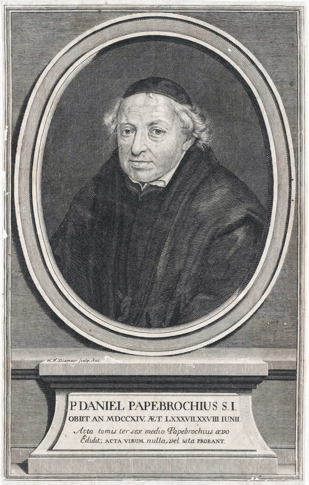 Daniel Papebroch, Jesuit, Bollandist (1628-1714)